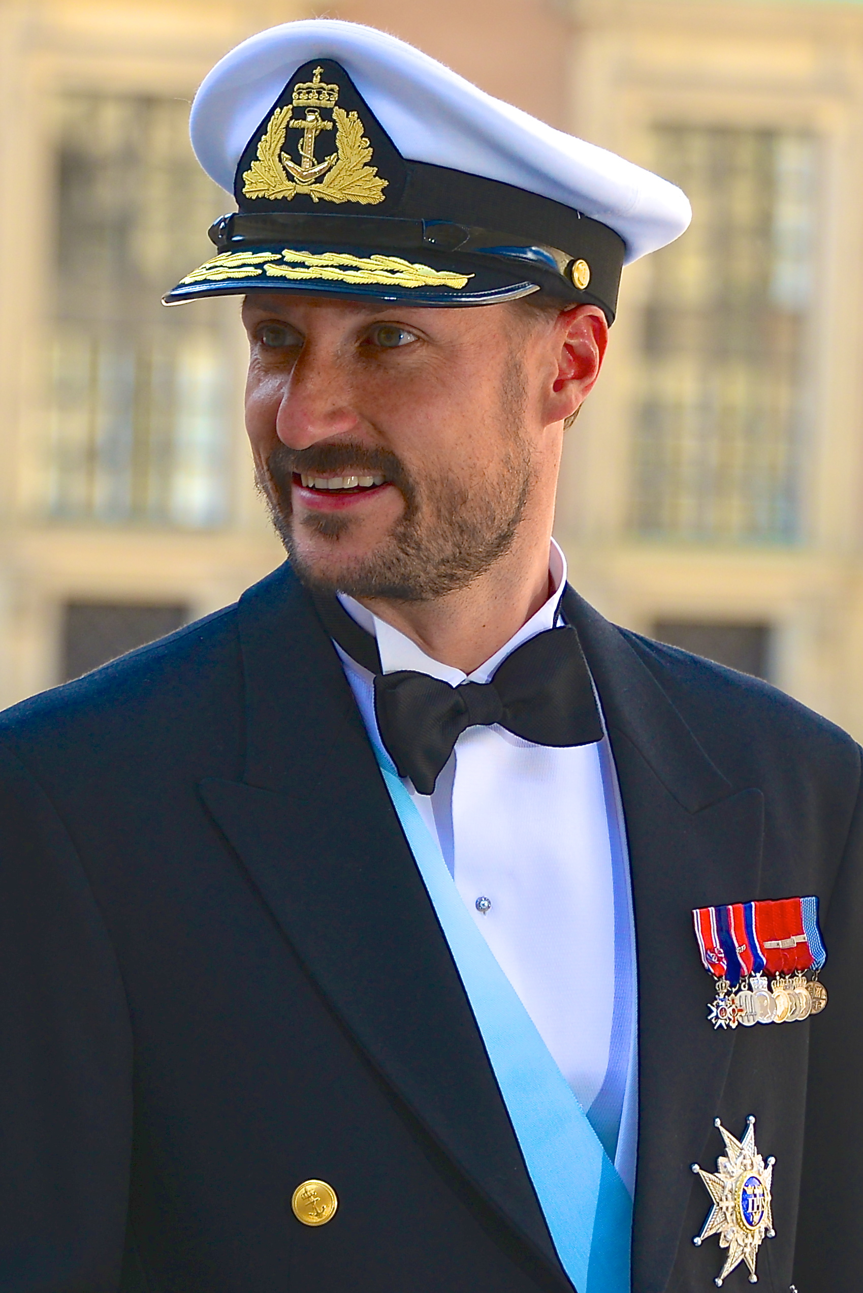 Haakon Magnus of Norway on the way to the castle church at the Royal Palace in Stockholm before the wedding between Princess Madeleine and Christopher O'Neill June 8, 2013.